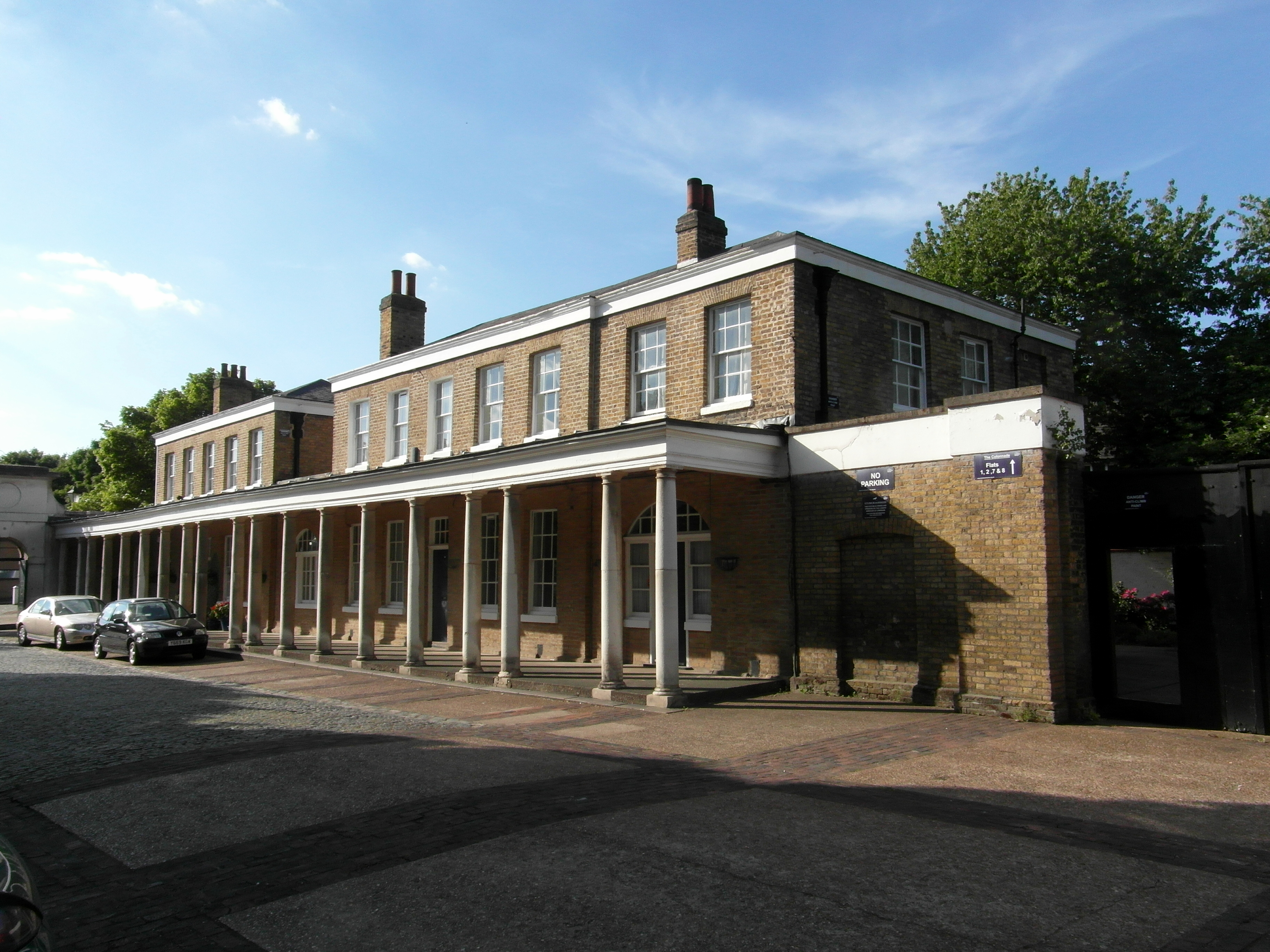 The Victualling Yard, Grove Street, Deptford. Designed by James Arrow and completed in 1783-8 for the Porter and Clerk of Cheque.